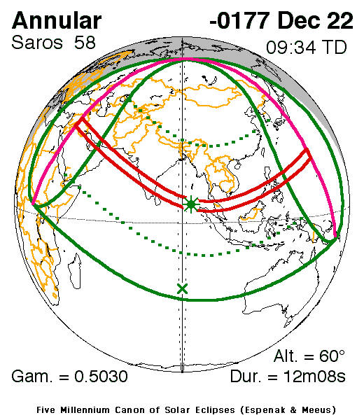 Eclipse Predictions by Fred Espenak, NASA/GSFC". Prediction for 22 December, 178BC (-177 in astronomical year)